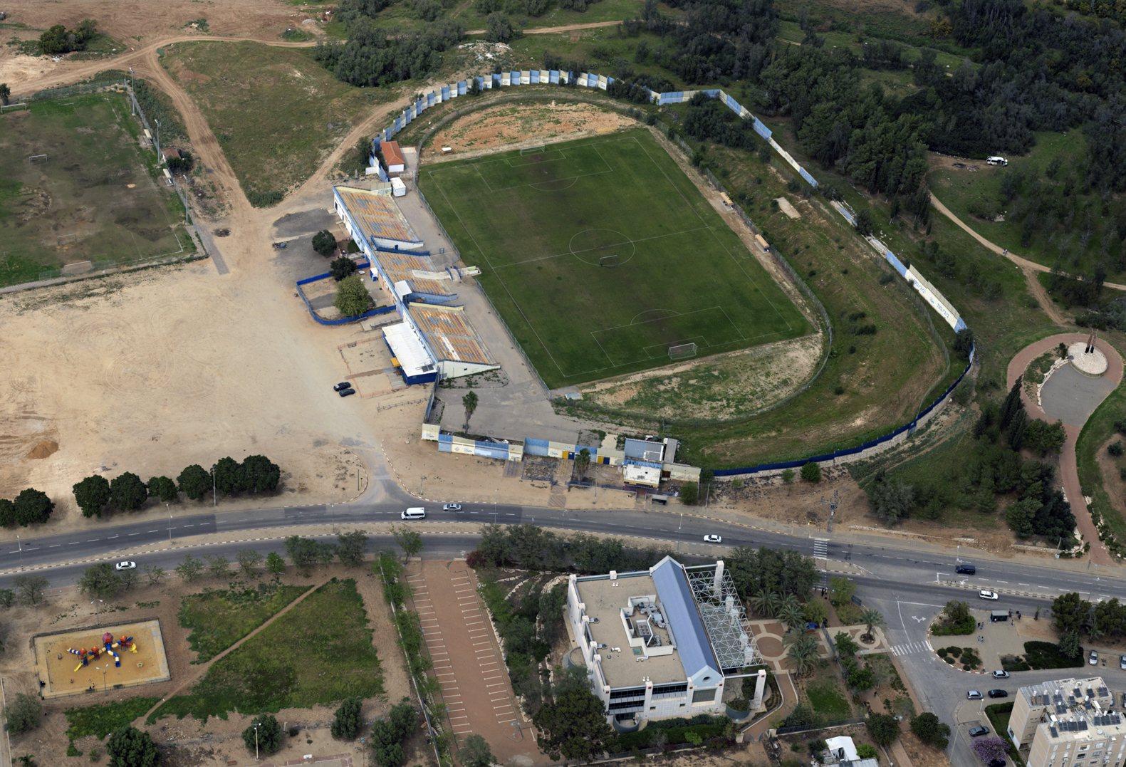 kiryat gat, Sports in Israel